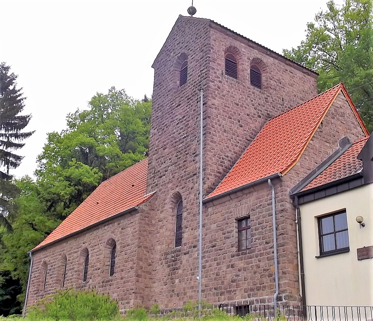 Exterior of the roman catholic church in Hoof, Saarland, Germany